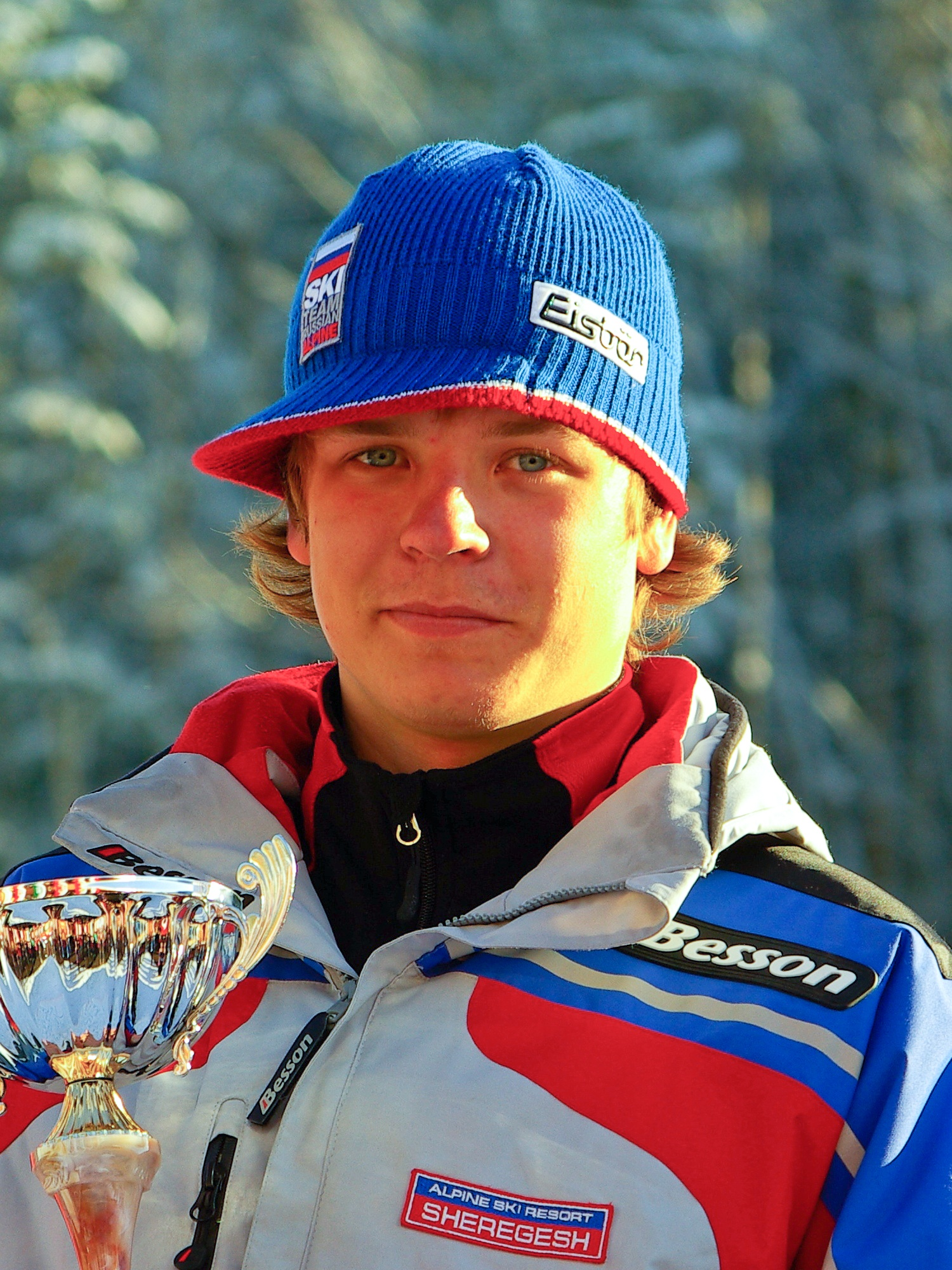 Russian alpine skier Stepan Zuyev during the award ceremony for the FIS-Slalom of the Austrian Junior Championships 2008 in Lackenhof.